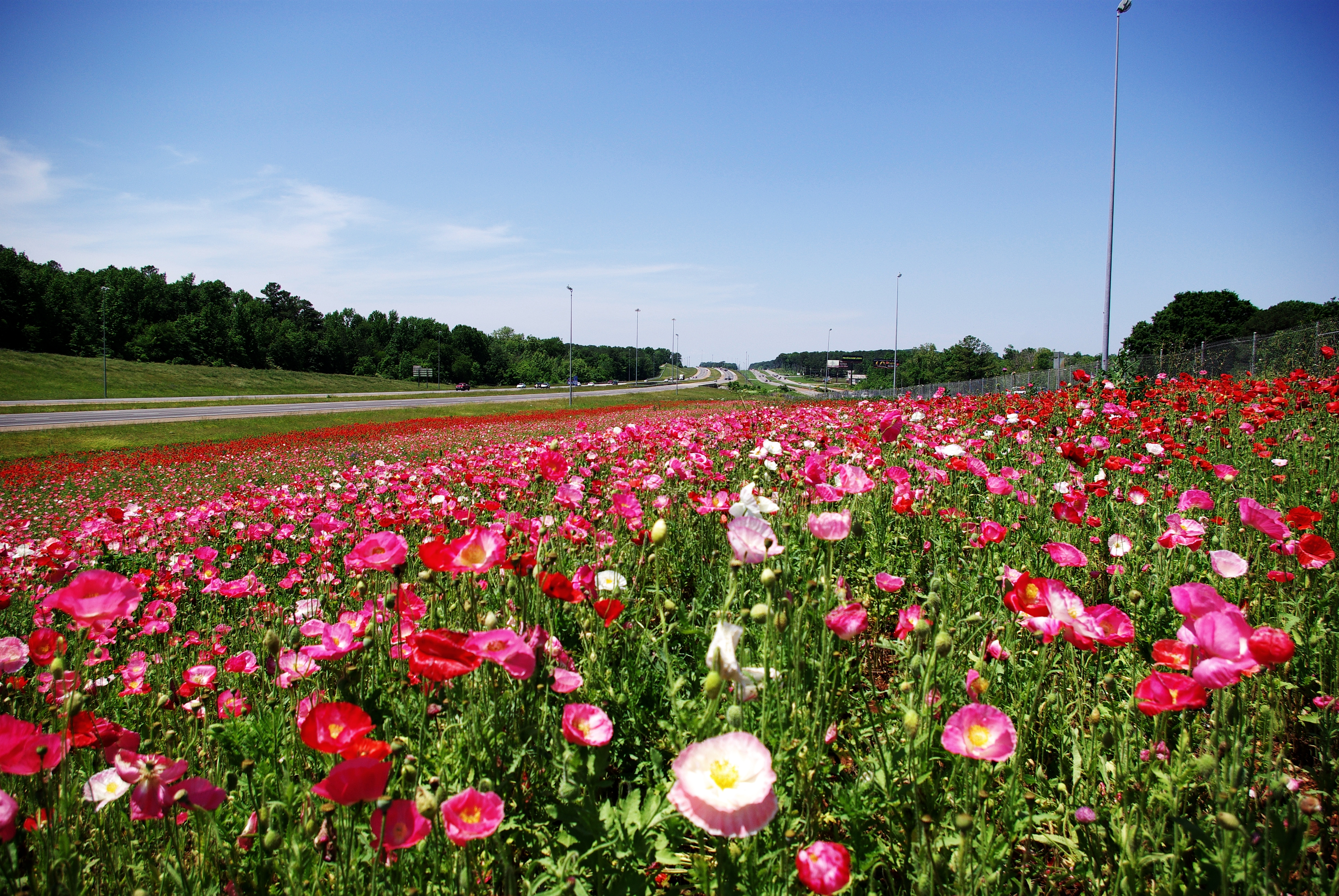 a large patch of wildflowers between I-565 & highway 20 in madison county. i've been wanting to take photos of them for a while, and finally got out and did it! it was fun getting out in the flowers.